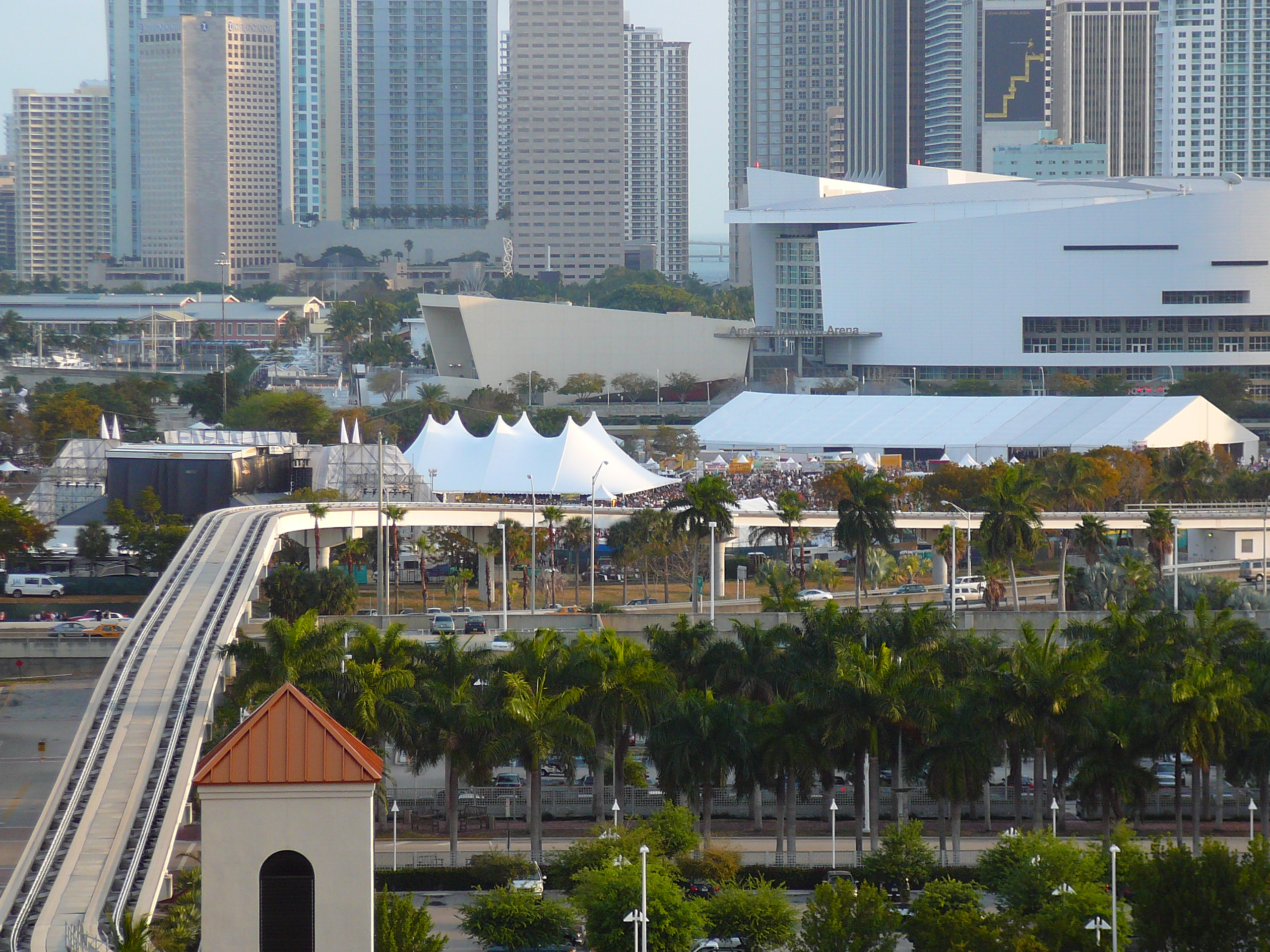 Digital photo taken by Marc Averette. Th Ultra Music Festival in Downtown Miami as seen from the north on 3/27/2009.